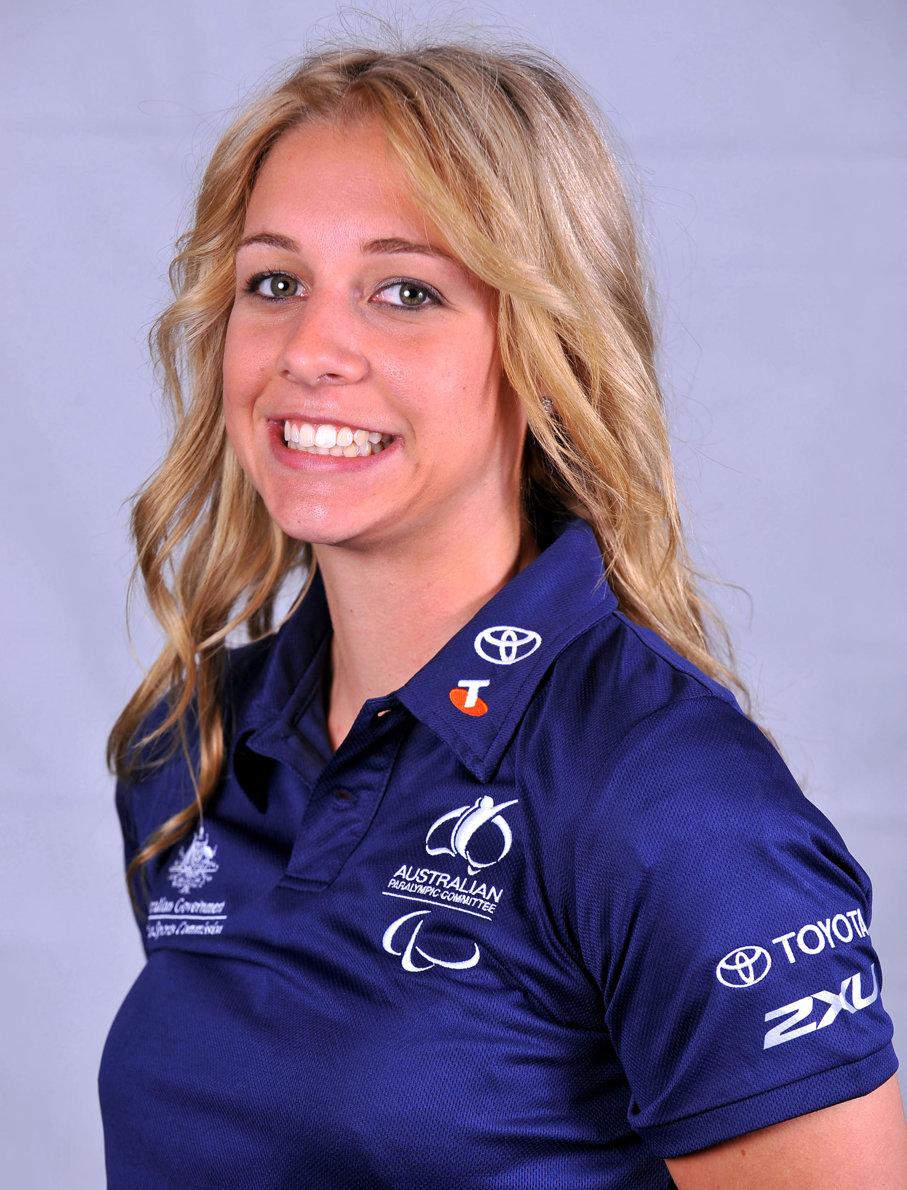 Portrait of Australian athlete Katy Parrish, 2012 Australian Paralympic (shadow) Team athlete